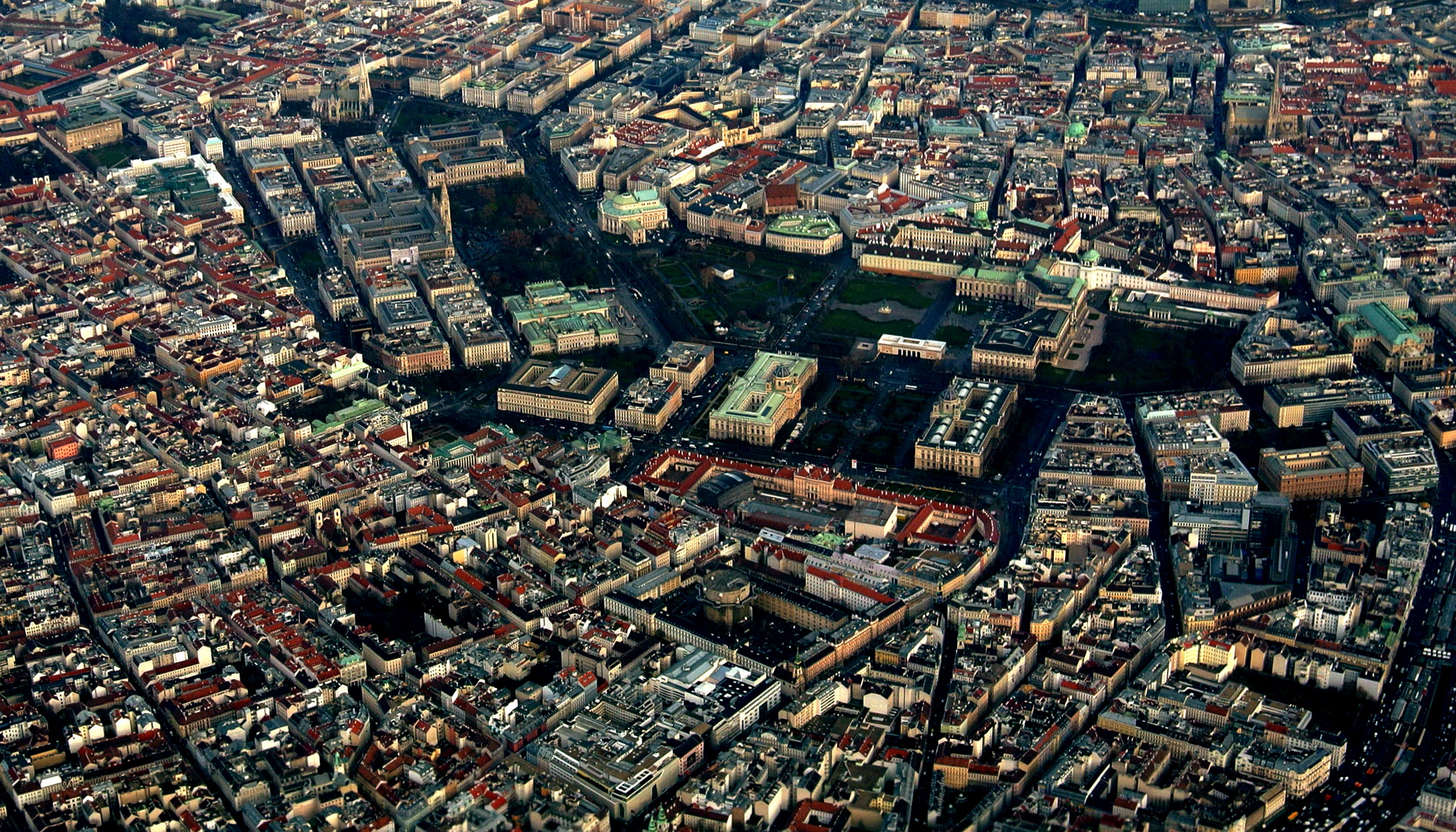 Vienna as on the hand